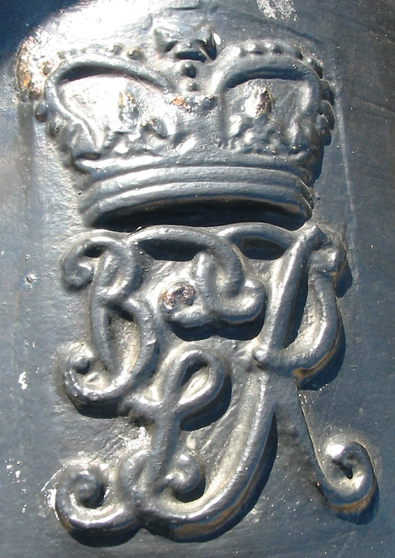 monogram of George III of the United Kingdom on cannon at Elizabeth Castle, Jersey